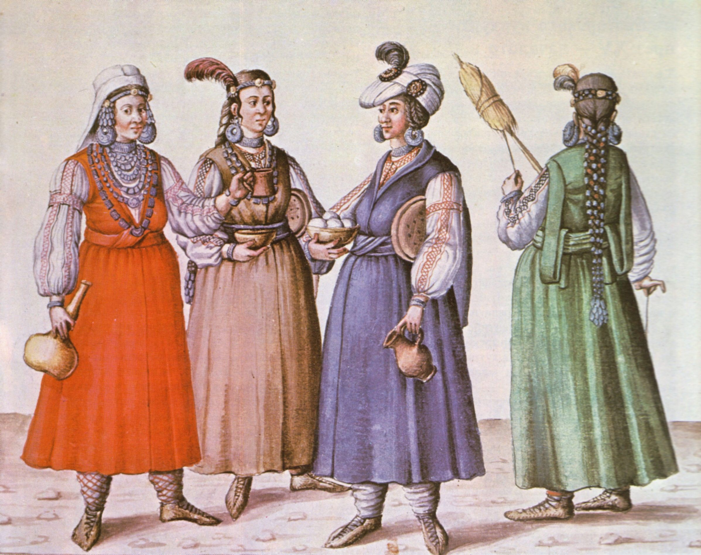 Bulgarian women from the time of the Ottoman Empire rule, 1586. Painting of H. Beck.